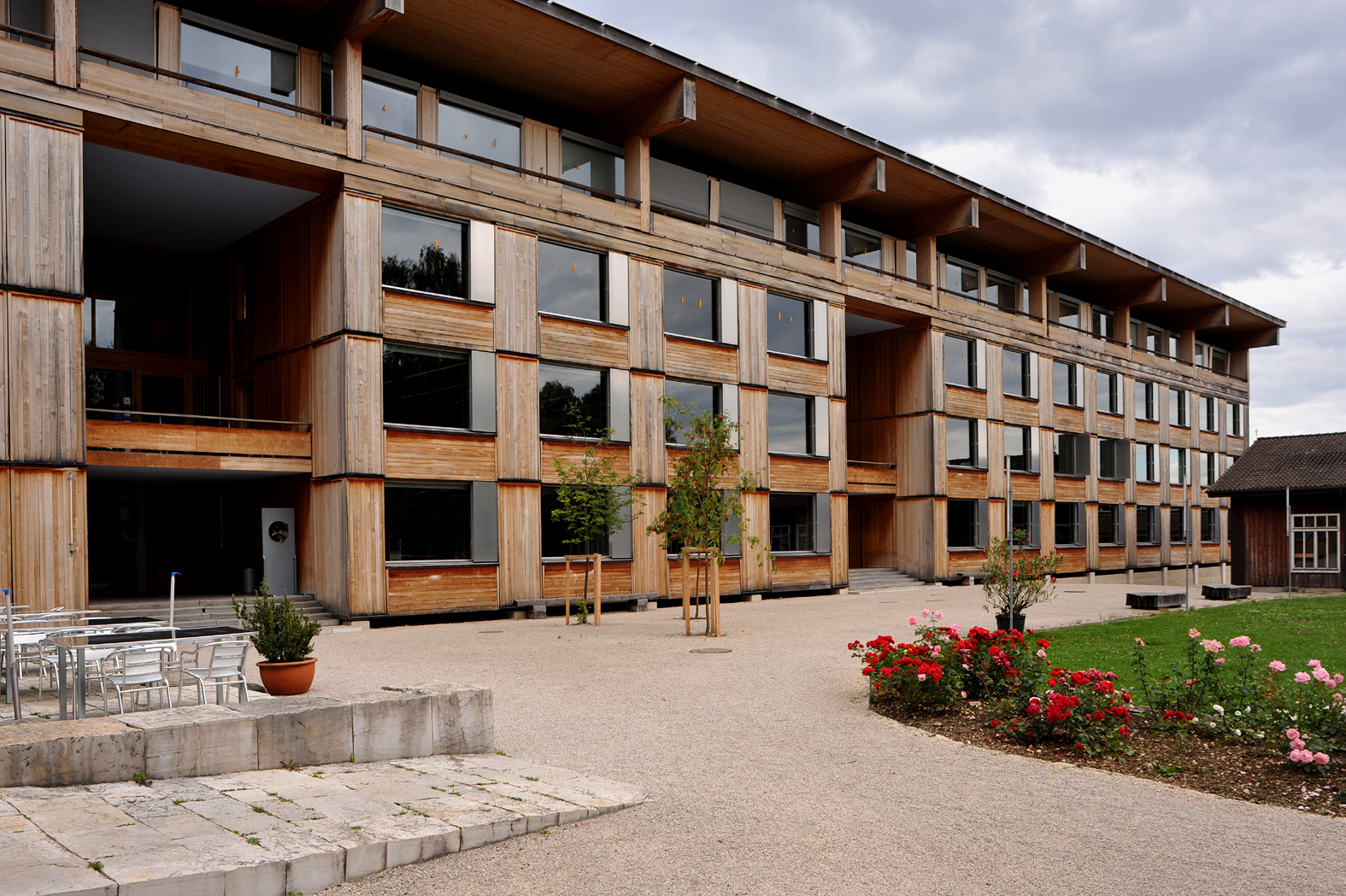 Berne University of Applied Sciences (BFH) Biel, building of the architecture, wood and civil engineering departement, Solothurnstrasse, Biel; Berne, Switzerland.